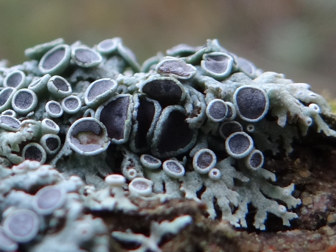 Physcia stellaris (location: Poland, Pieniny, Sromowce Niżne)